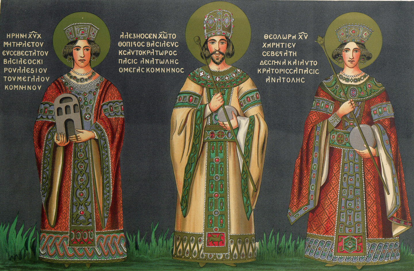 Rendering of fresco at the Panagia Theoskepastos ("Agia Theotokos") monastery, Trebizond (Trabzon, Turkey), 1864. By Charles Texier. Alexios III of Trebizond between his mother and wife.